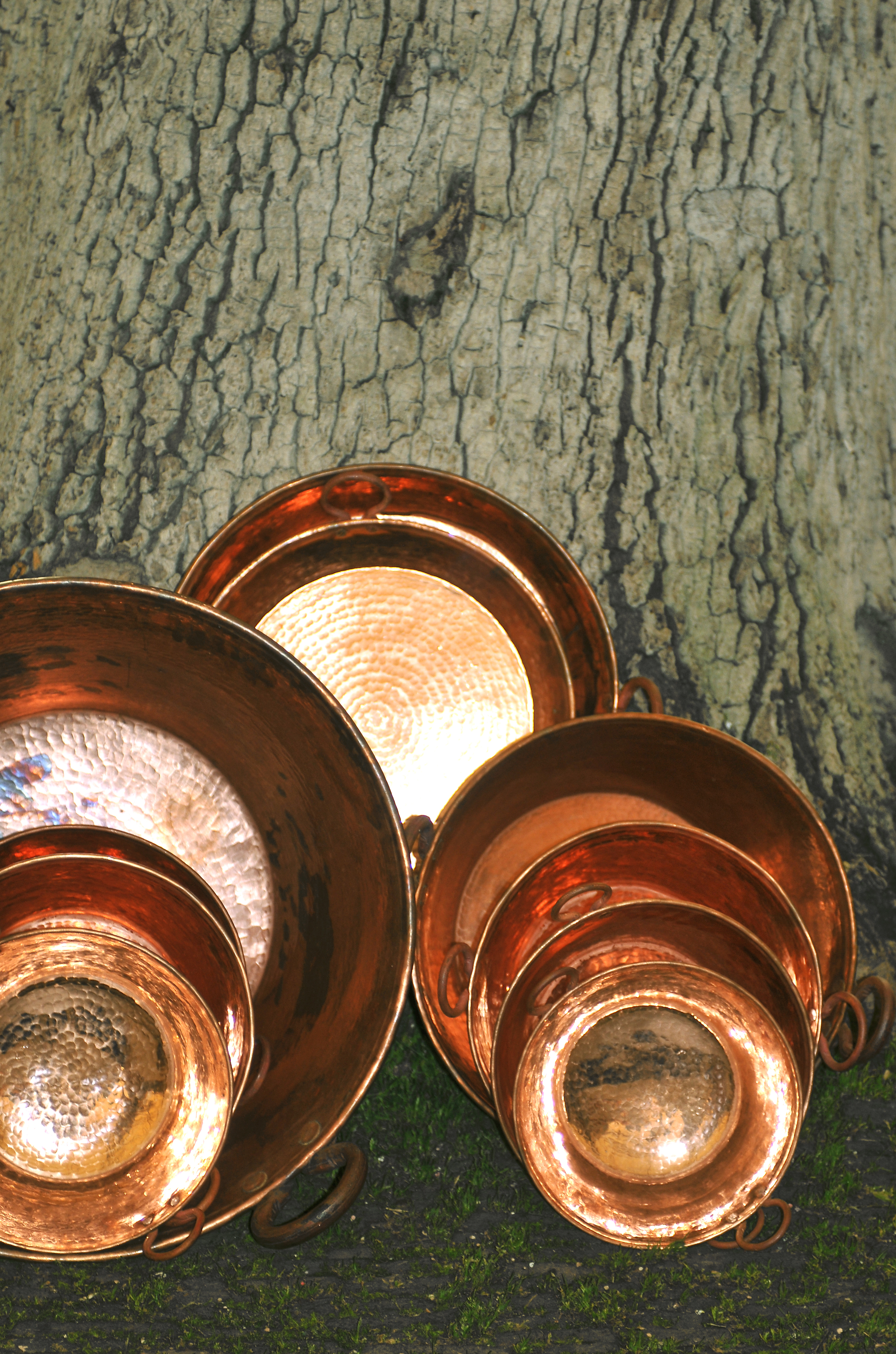 Copper objects at the Day of the Dead craft fair. Pátzcuaro, Michoacán, Mexico